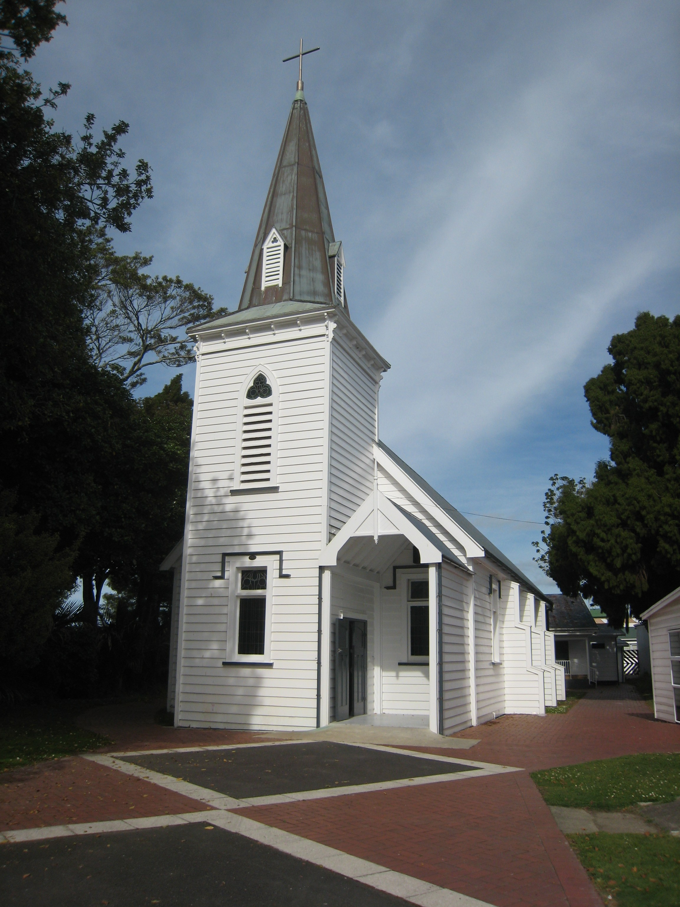 Church of St Stephen the Martyr, Opotiki. Built in 1862-1864, and site of the Völkner Incident in 1865. New Zealand Historic Places Trust Register number 142.